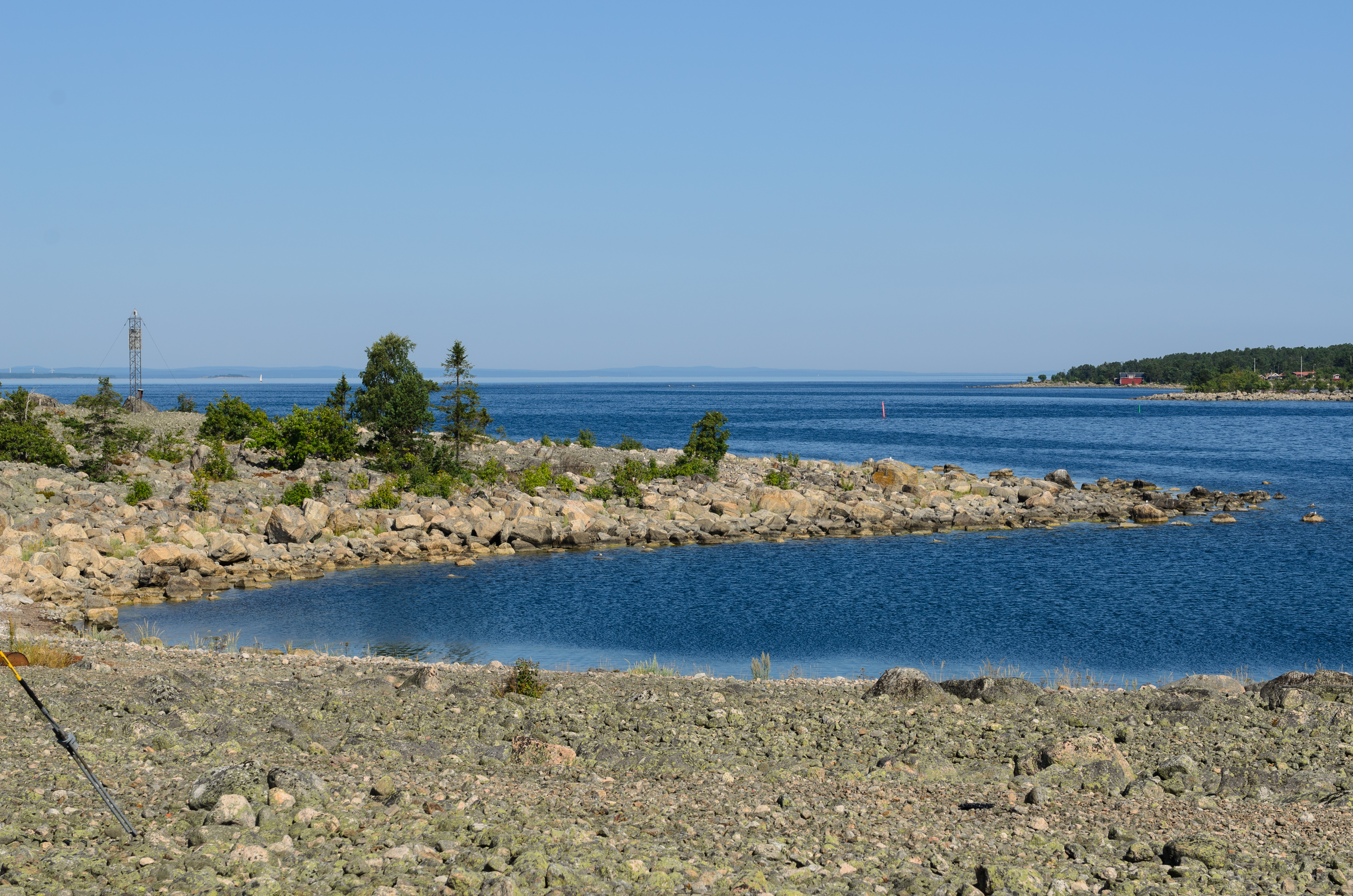 View from Kuggörarna, a small fishing villages in Hudiksvall municipality (Sweden).